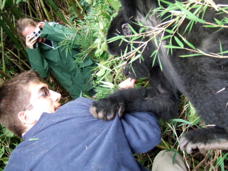 Young gorilla grabs tourist at Volcanoes National Park. Taken from the Sabyinyo group at the Volcanoes National Park 13/08/06